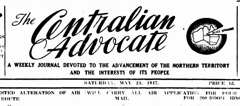 The masthead of the first edition of the Centralian Advocate, published at Alice Springs on 24 May 1947.